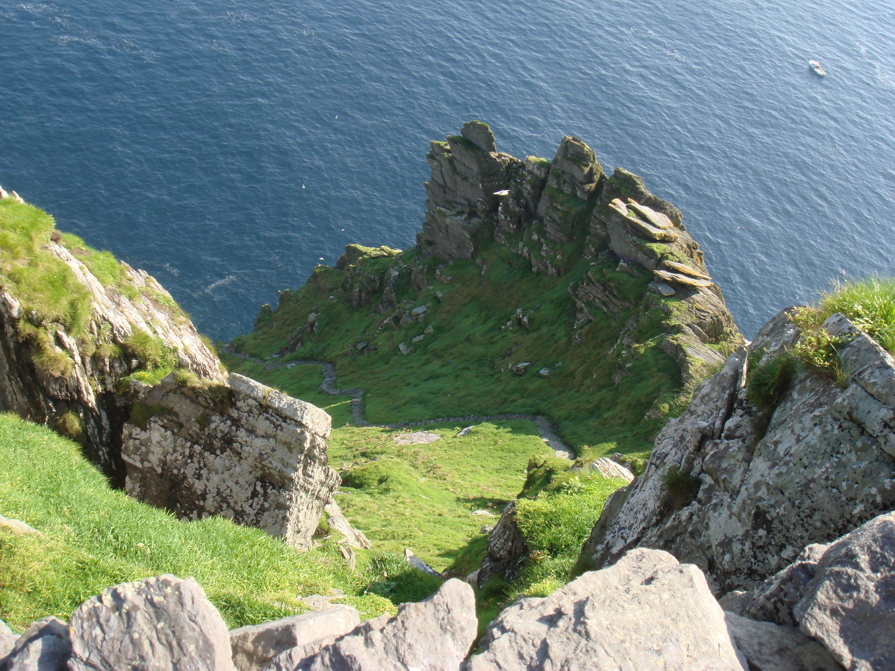 The stone stairs leading to the monastery on Skellig Michael.